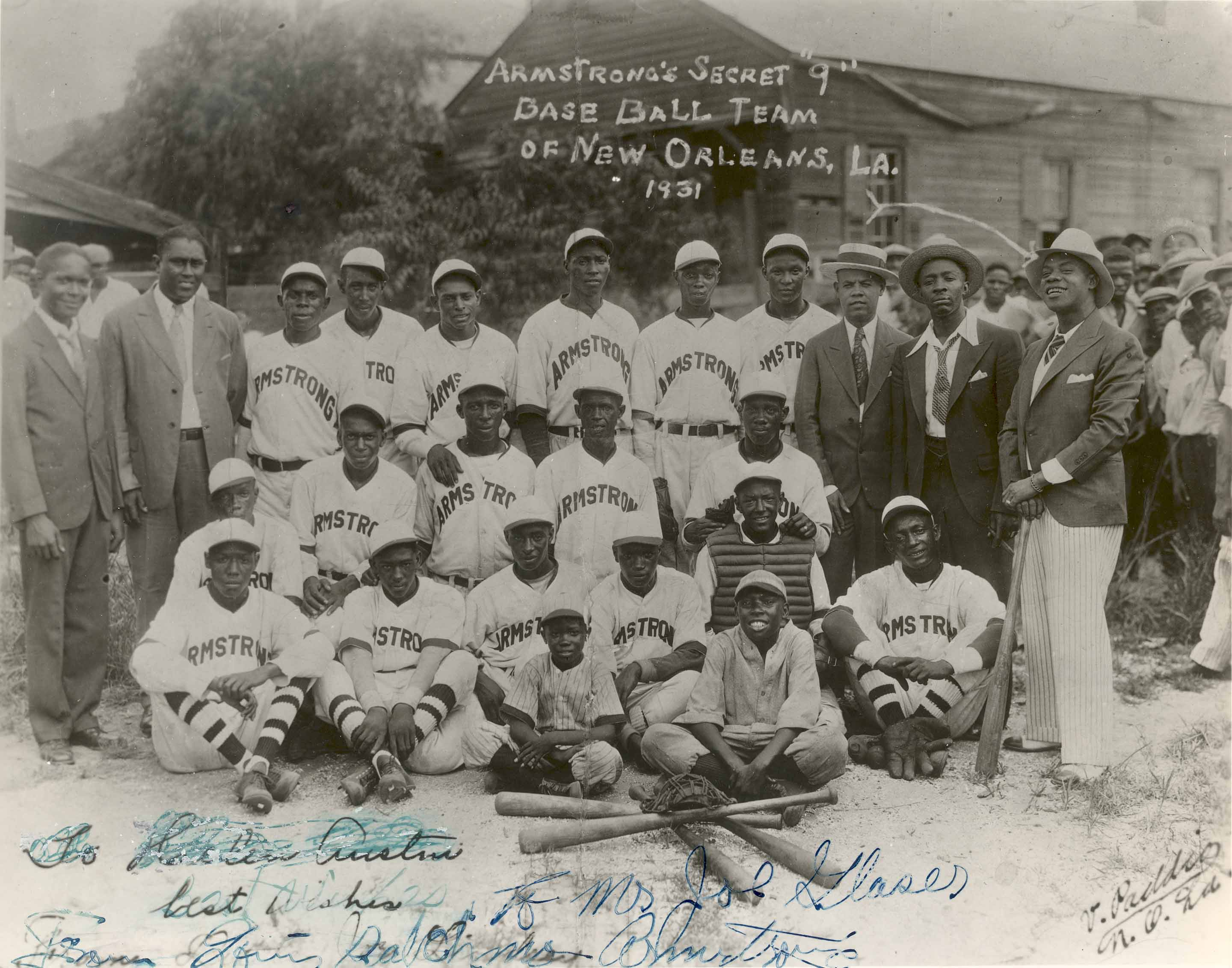 An image of Louis Armstrong's (short-lived) baseball team, "Secret 9"